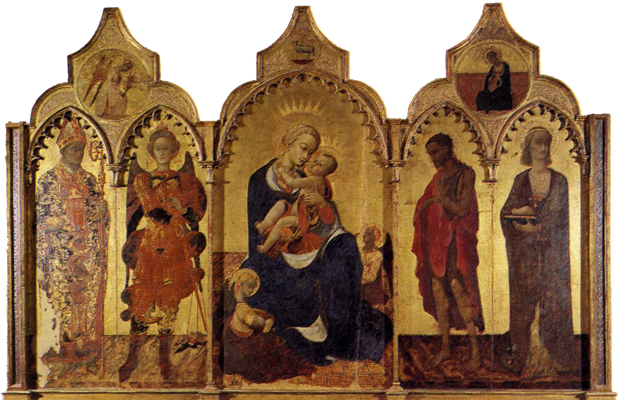 Virgin with Child and Four Saints